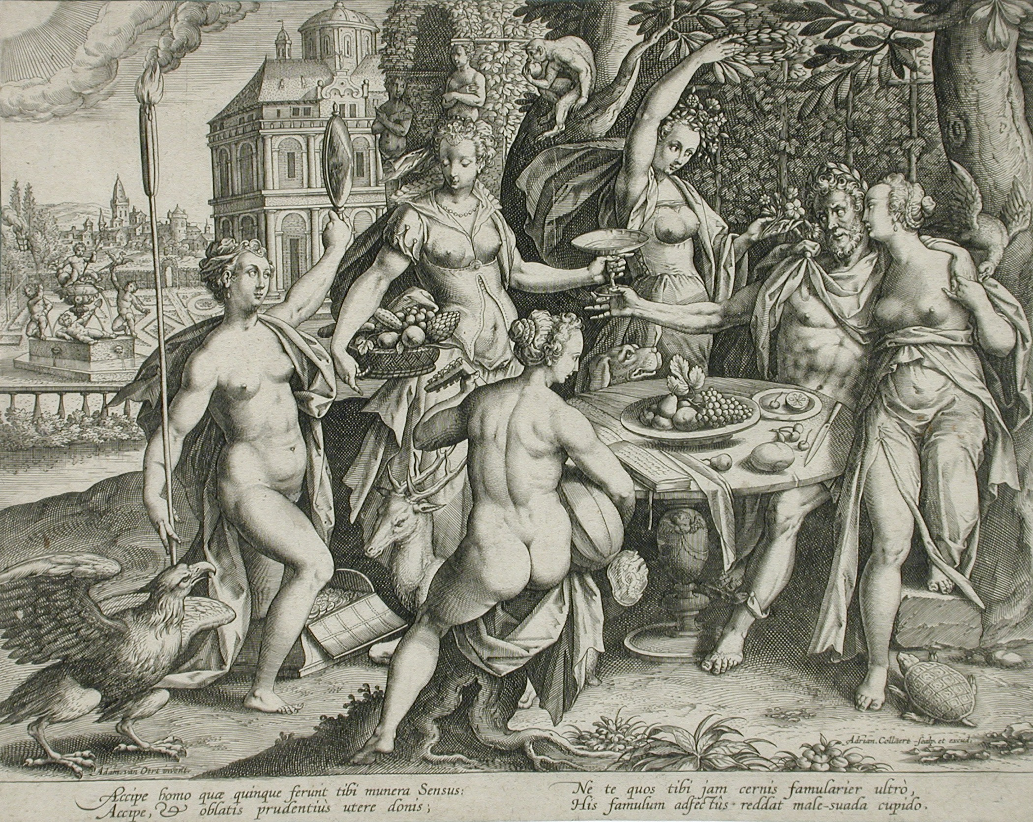 Flanders, circa 1600 Prints; engravings Engraving Mary Stansbury Ruiz Bequest (M.88.91.303) Prints and Drawings